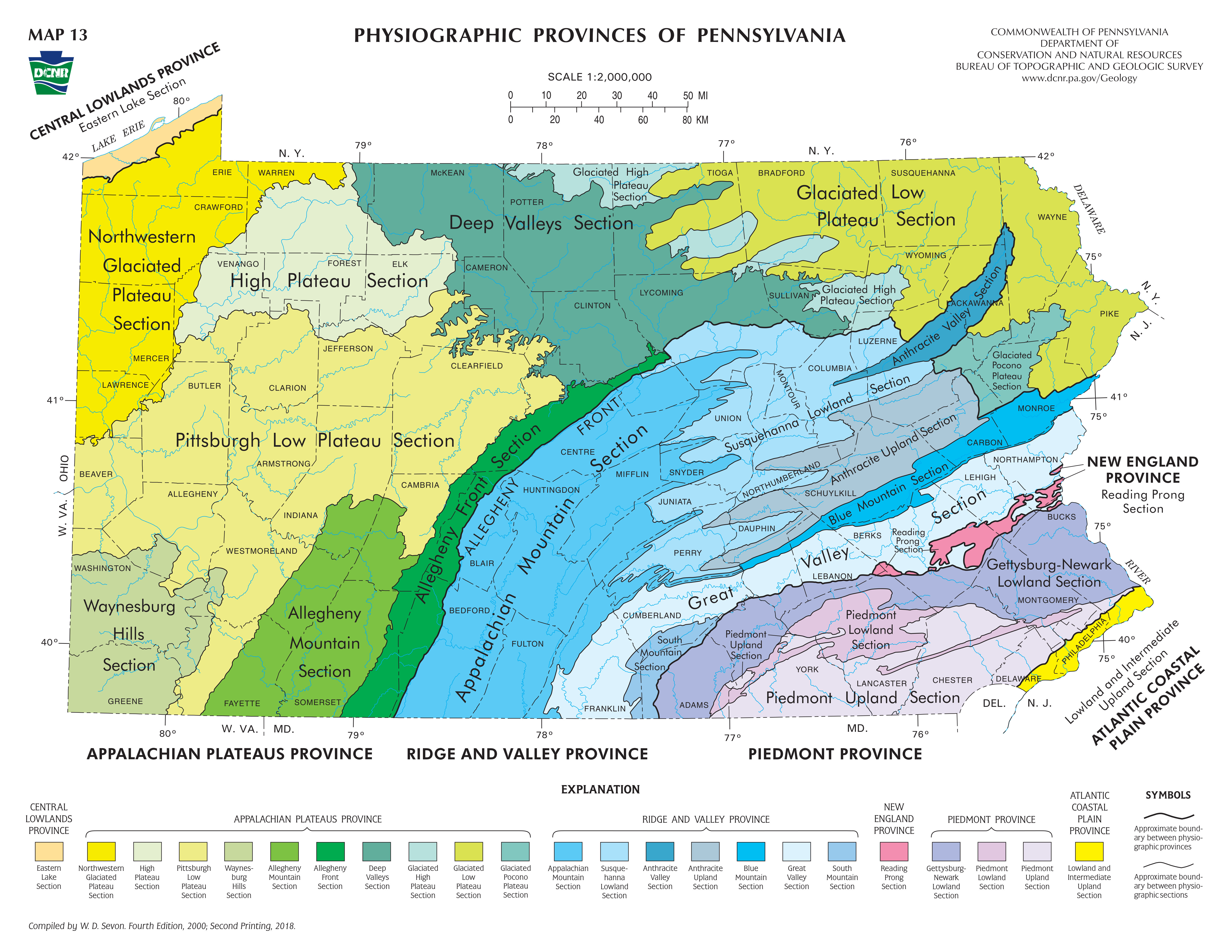 Physiographic Provinces of Pennsylvania This image, from the Pennsylvania Geological Survey of the Pennsylvania Department of Conservation and Natural Resources, is in the public domain pursuant to House Bill 924 of the 1997–98 session of the Pennsylvania General Assembly: [1]. Persons re-using the image are strongly requested (but not required) to include the following attribution: "Sevon, W. D., compiler, 2000, Physiographic provinces of Pennsylvania: Pennsylvania Geological Survey, 4th ser., Map 13, scale 1:2,000,000." • Using information to label regions in Pennsylvania articles, this citation might be of use: suggested cite Sevon, W. D., compiler, 2000, plain link| provinces of Pennsylvania" , Pennsylvania Geological Survey of the Pennsylvania Department of Conservation and Natural Resources, Pennsylvania Geological Survey, 4th ser., Map 13, scale 1:2,000,000. which ... displays as Sevon, W. D., compiler, 2000, "Physiographic provinces of Pennsylvania", Pennsylvania Geological Survey of the Pennsylvania Department of Conservation and Natural Resources, Pennsylvania Geological Survey, 4th ser., Map 13, scale 1:2,000,000.